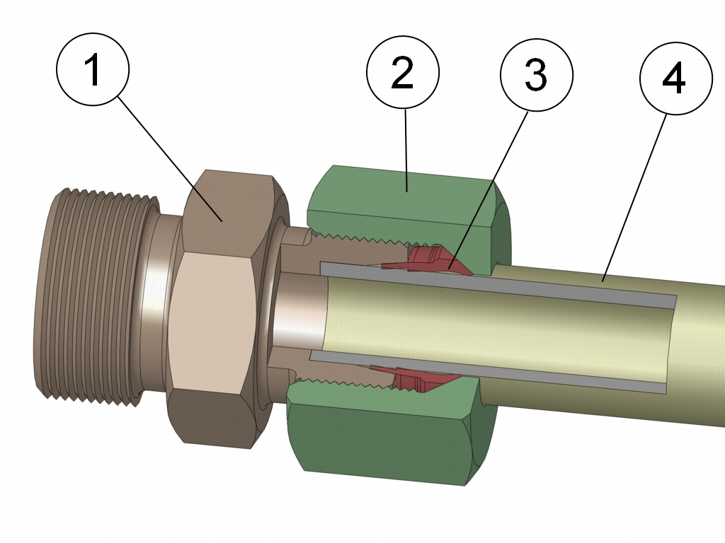 Cutting ring fitting When assembling the cutting ring fitting, the edges of the cutting ring are engraved into the pipe and seal it. 1-body 2-cap nut 3-cutting ring 4-pipe